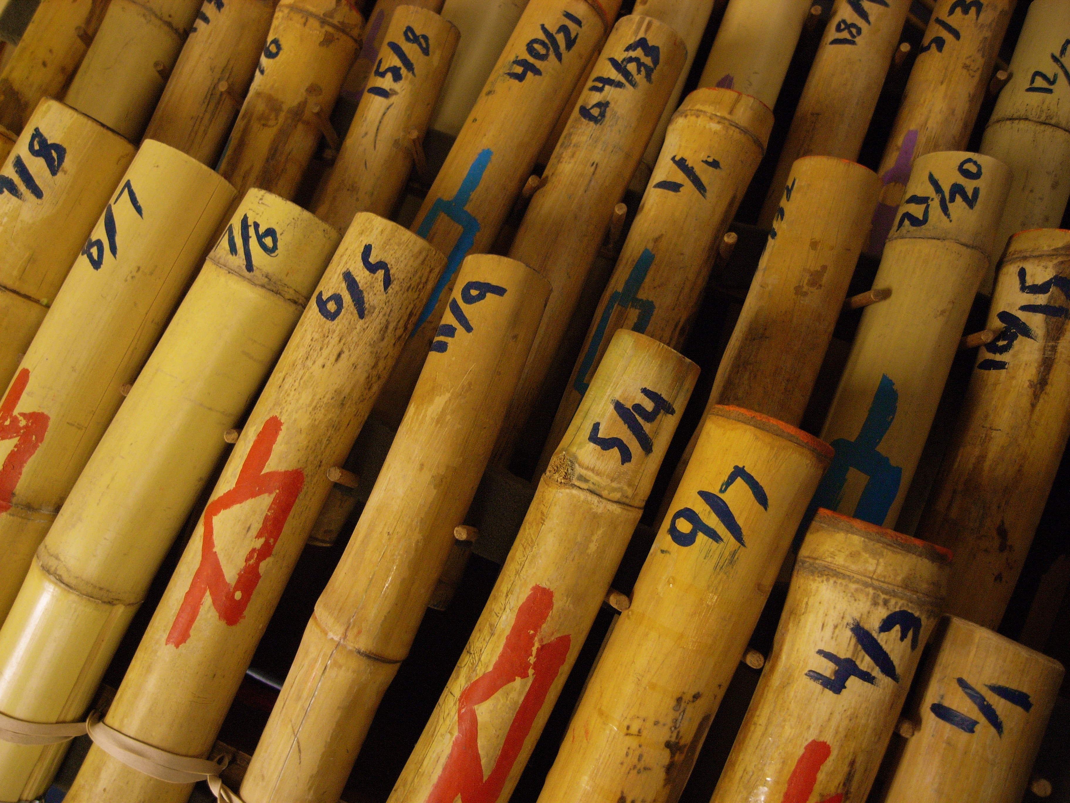 Harry Partch Institute open house 2008. Eucal Blossom